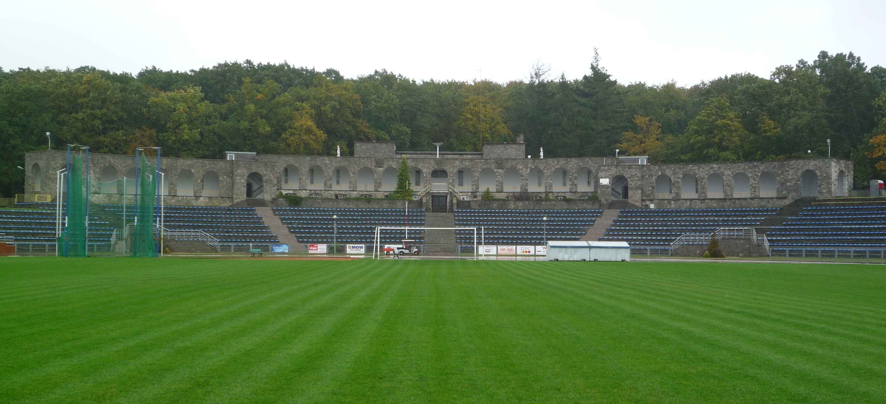 Stadium SOSiR in Słubice, Poland, built in 1914-1927